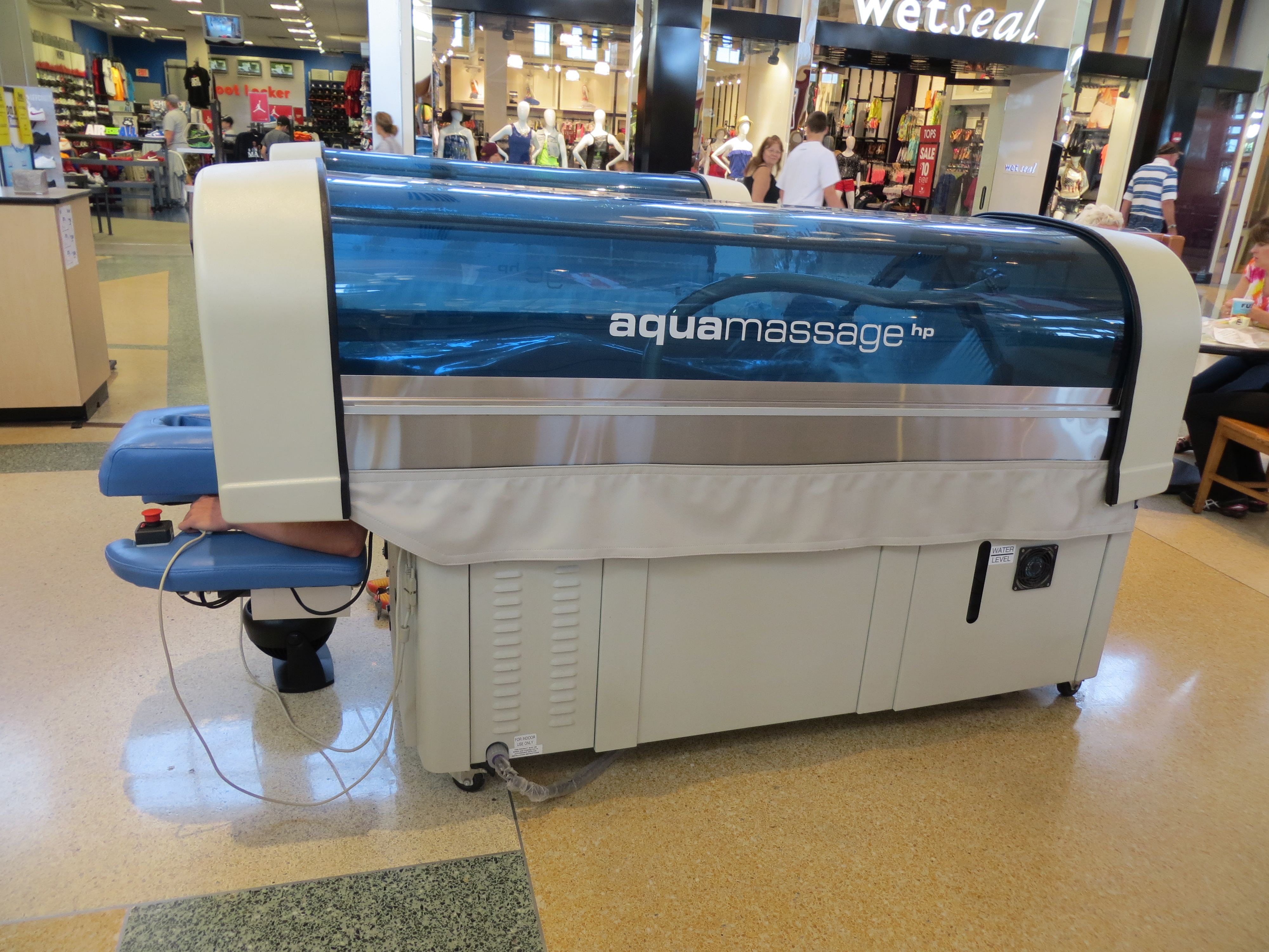 Aqua-massage, machine to give massage for the whole body. At display at a shopping mall of Fargo, North Dakota.